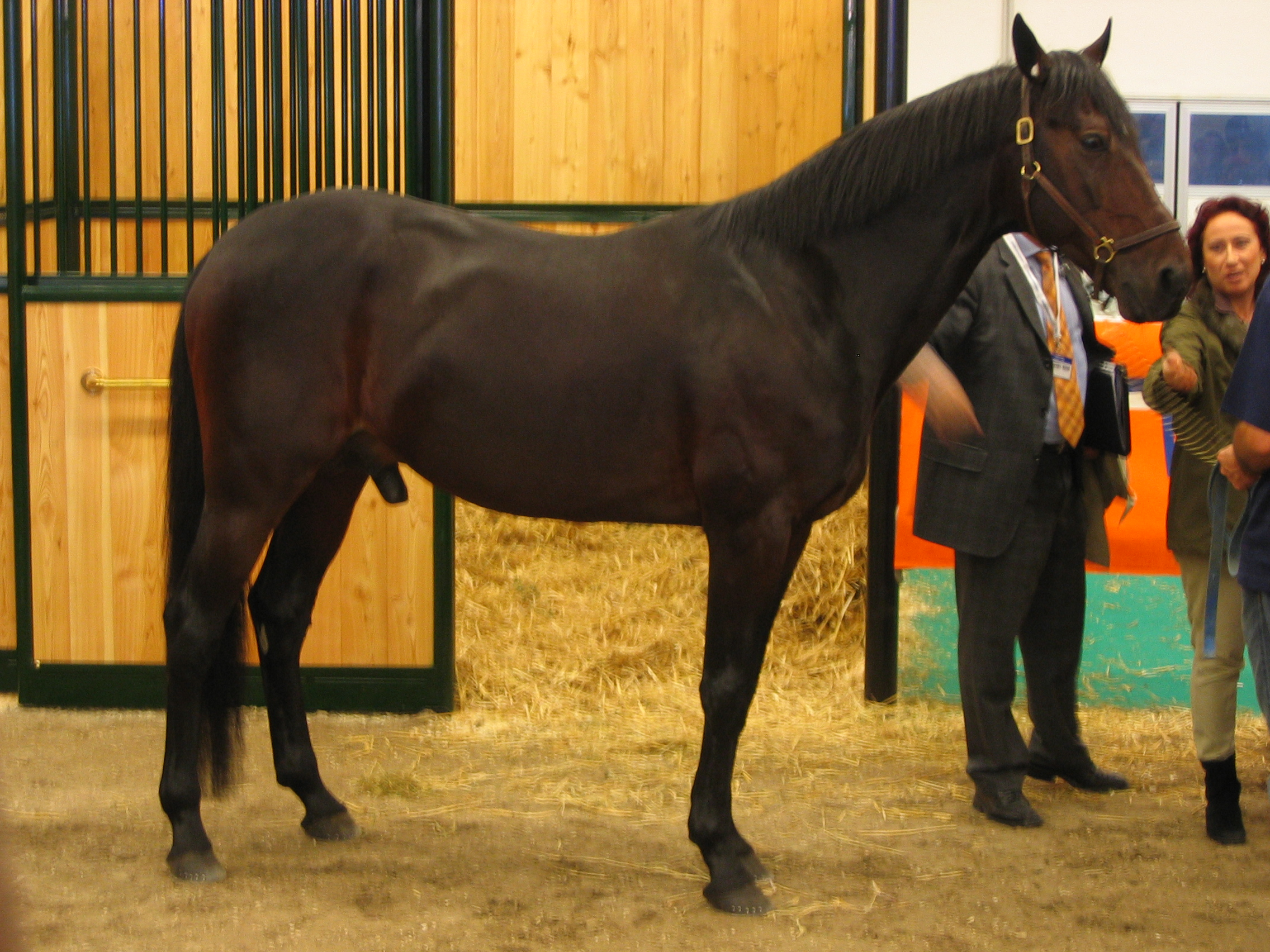 The famous Italian warmblood trotter Varenne at the Fieracavalli horse show in Verona, Italy, on 6 November, 2004. Picture taken and released in public domain by Paula Jantunen, Finland.